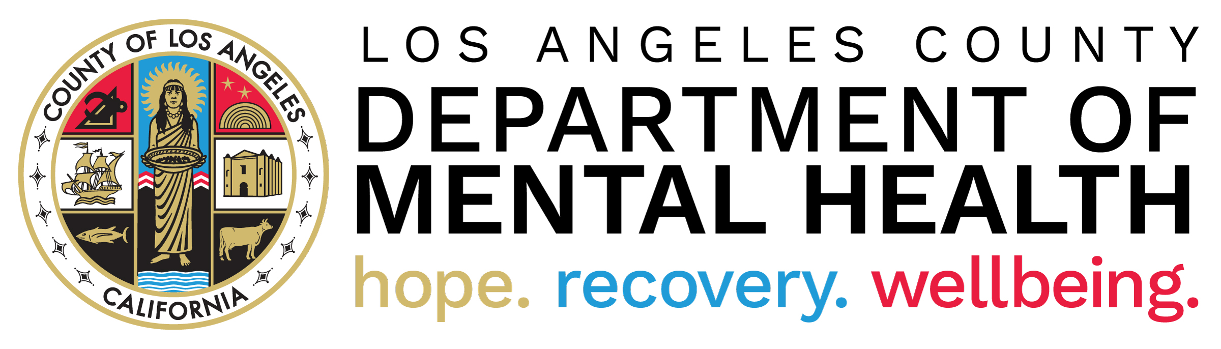 LACDMH Logo 2400 time width jpg version